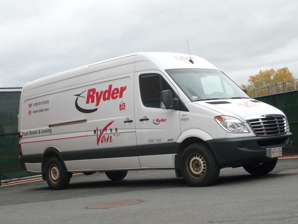 This rental is used to carry the Dartmouth football team's equipment down for away games. I believe Cambridge, MA was the destination this week. For those unfamiliar with it, the Freightliner Sprinter is yet another badge engineered variant of the popular Mercedes van. The US also gets a Dodge variant, and overseas they are sold as Volkswagens and, of course, Mercedes-Benz'(the Mercedes will come to the US in around 2010 to replace our Dodge). The Freightliner is, from my observation, much less common than its Dodge counterpart, despite having entered the market somewhat earlier.